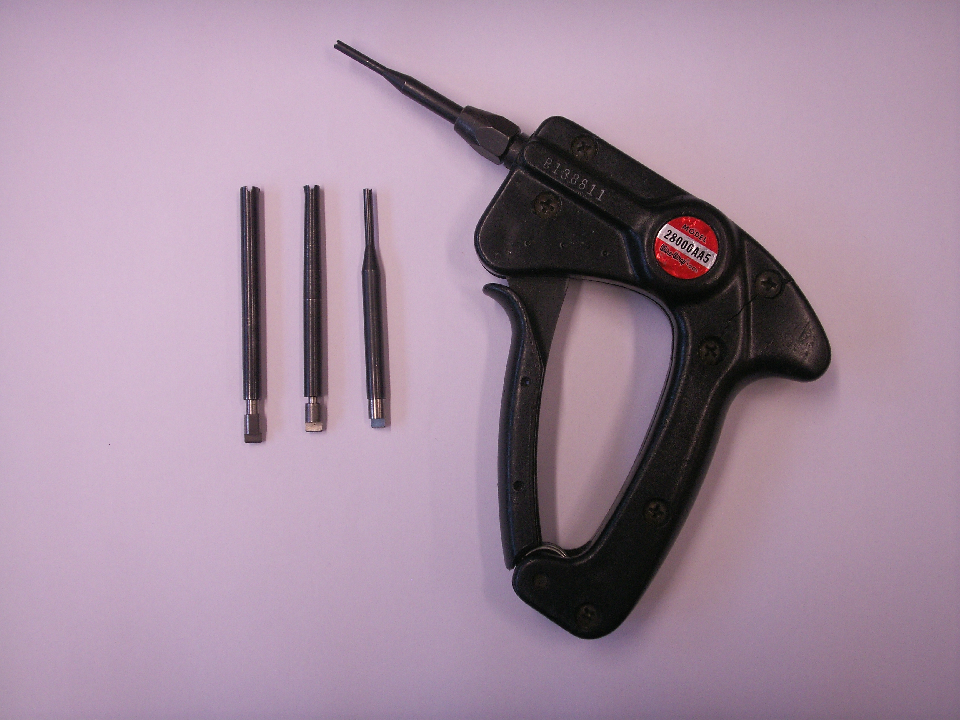 Mechanical hand powered wire wrap tool ( wire-wrap gun ) and some different inserts